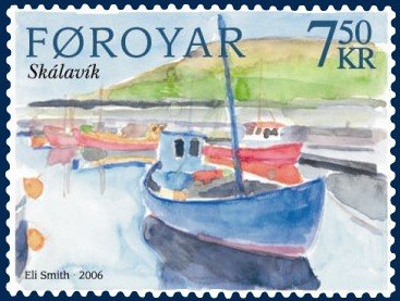 Stamp FO 571 of the Faroe Islands: The Isle of Sandoy: Skálavík